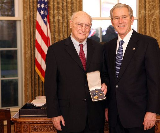 George W. Bush, President, gave the Presidential Citizens Medal to Andrew Marshall, Director of the Office of Net Assessment, Department of Defense, at the Oval Office of the White House in Washington, D.C. on December 10, 2008.